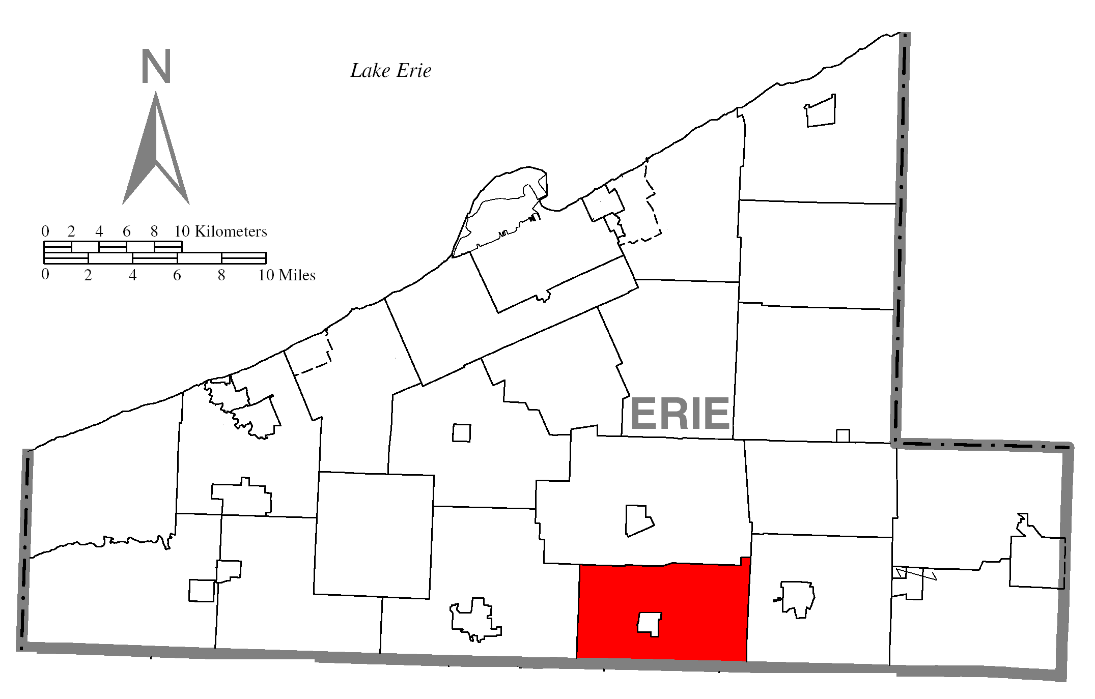 A map of Erie County showing LeBoeuf Township, Pennsylvania (alternate) highlighted on the map.